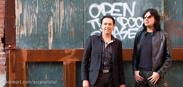 Mexican music duo "Los Temerarios" in 2012.